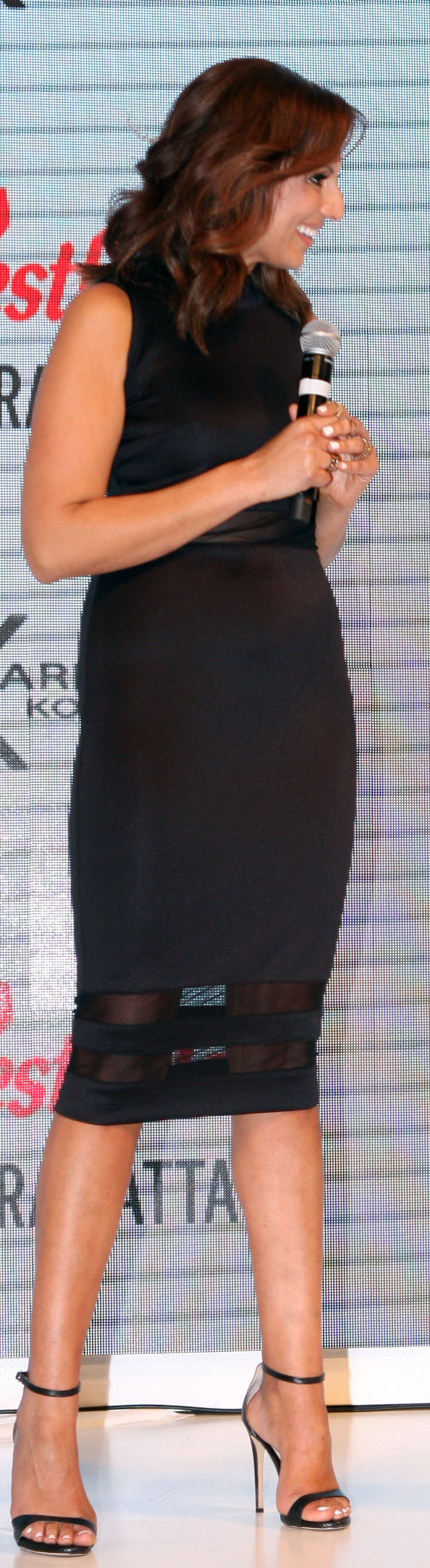 Sally Obermeder in Long Pencil dresses